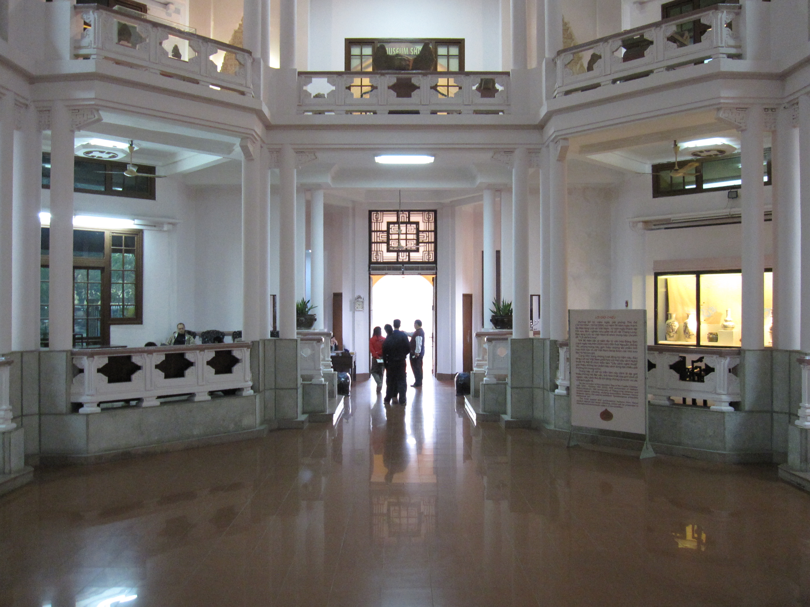 Main hall of the National Museum of Vietnamese History